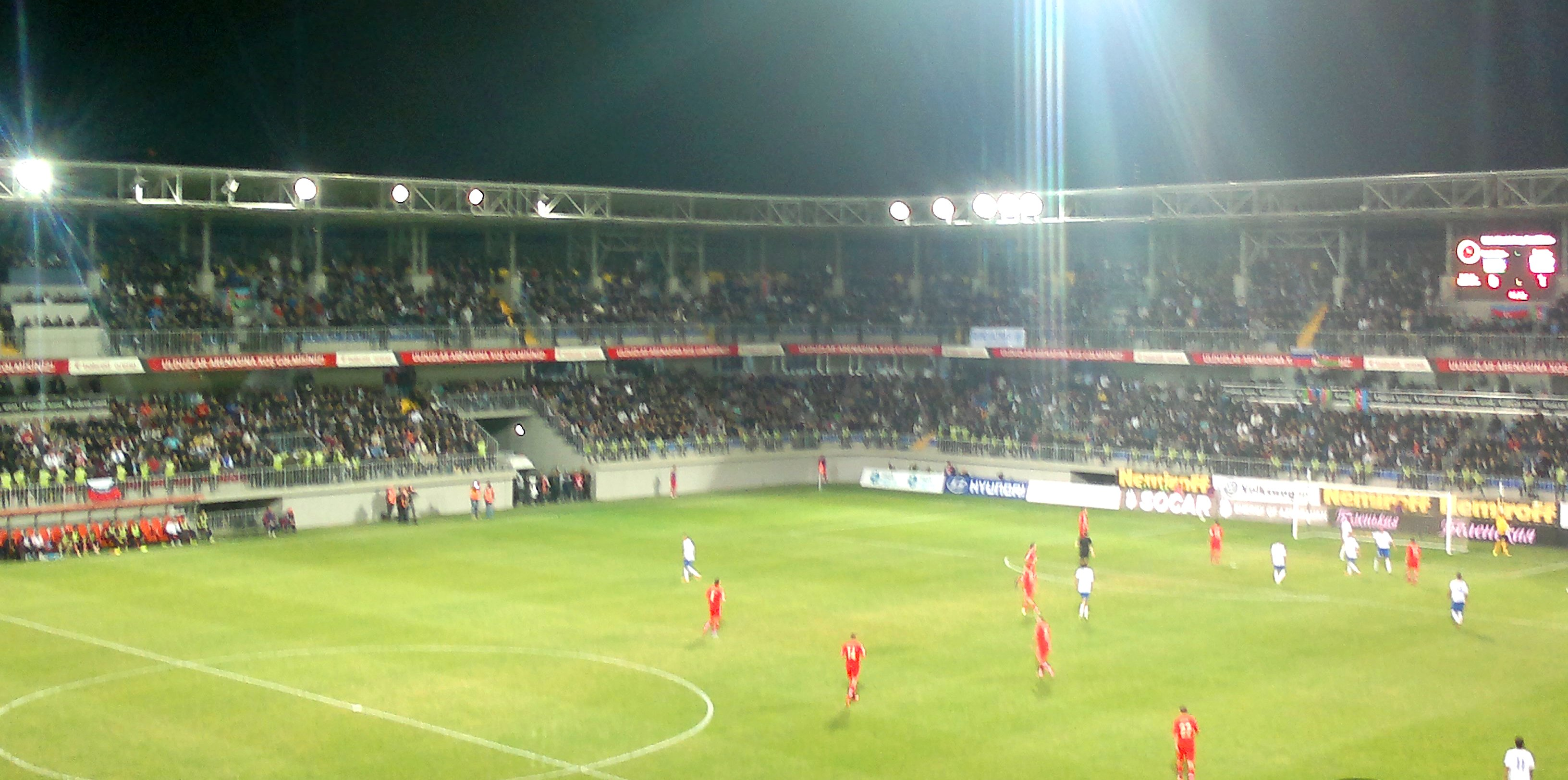 Azerbaijan - Russia. World Cup 2014 Qualifiers. Bakcell Arena, Baku.